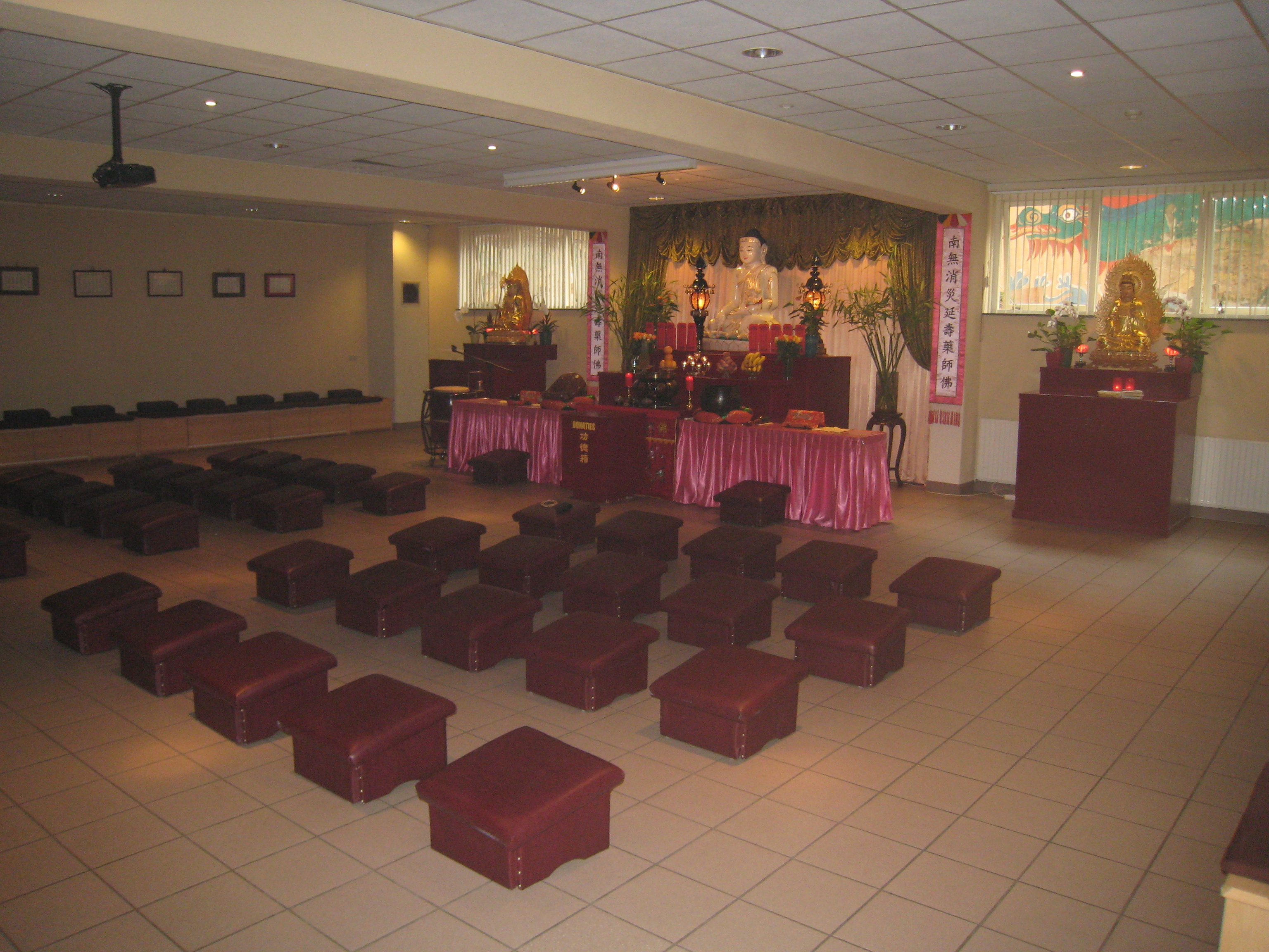 Jaden Boeddha zaal, He Hua tempel, Amsterdam